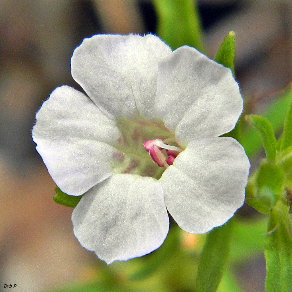 I believe this is the white form of Dyschoriste angusta (Rockland twinflower, Pineland snakeherb) growing in the piny section of Frenchman's Forest Natural Area. The IRC database does not list it as growing there but it does occur in nearby natural areas. The flowers here were all of the white form and about 10mm in diameter. (Thank you Mary for the identification)!